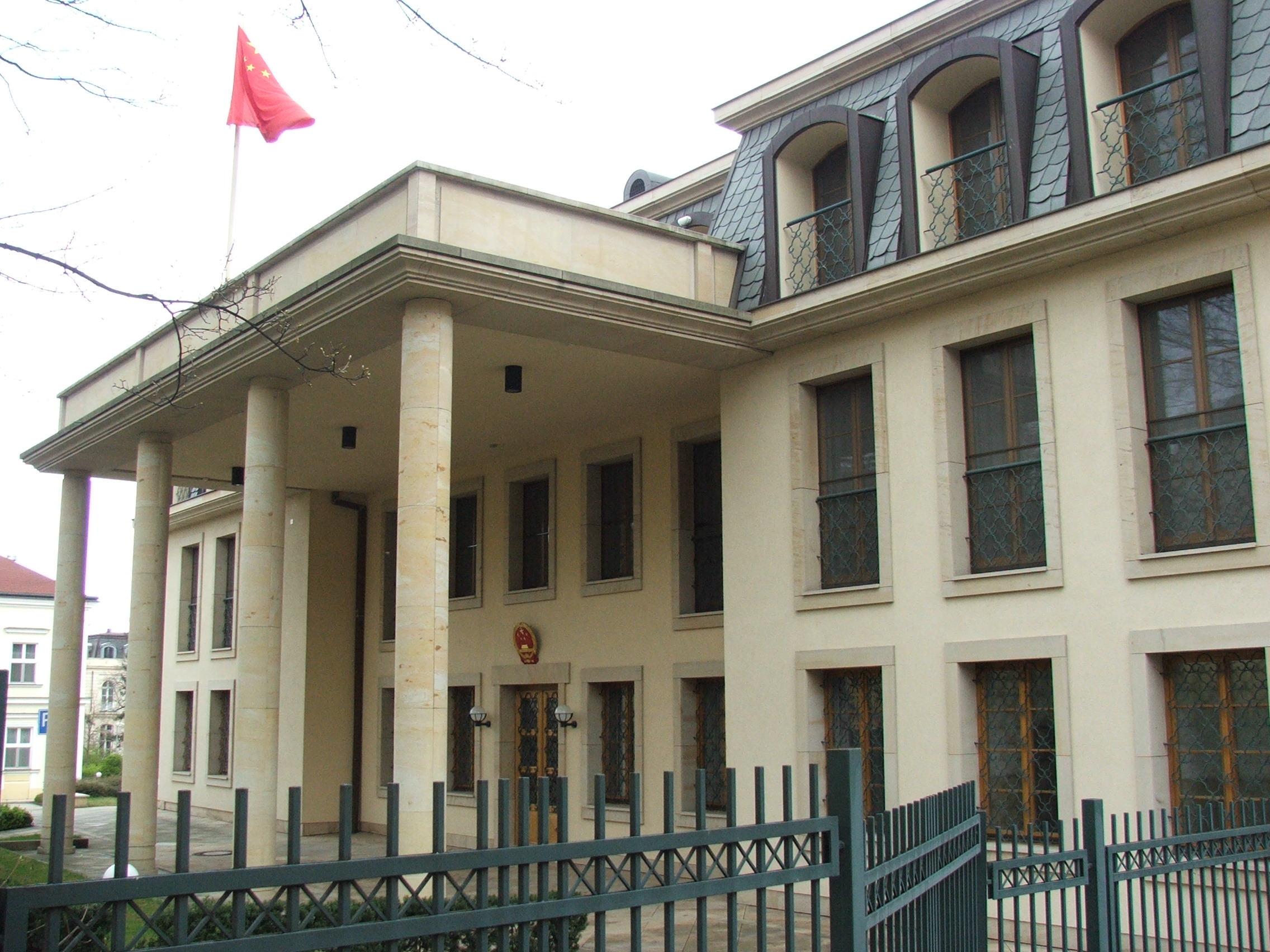 Embassy of People's Republic of China in Prague - Bubeneč, Czechia